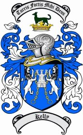 The Kelly family coat of arms.